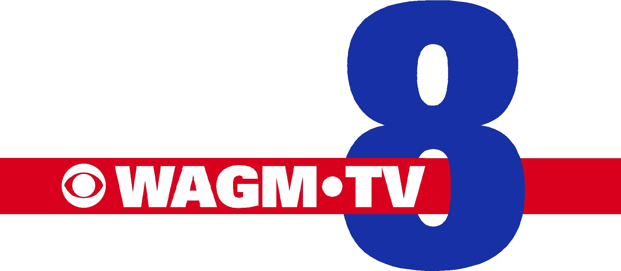 This was the logo for WAGM-TV, from between 2006 and 2012.